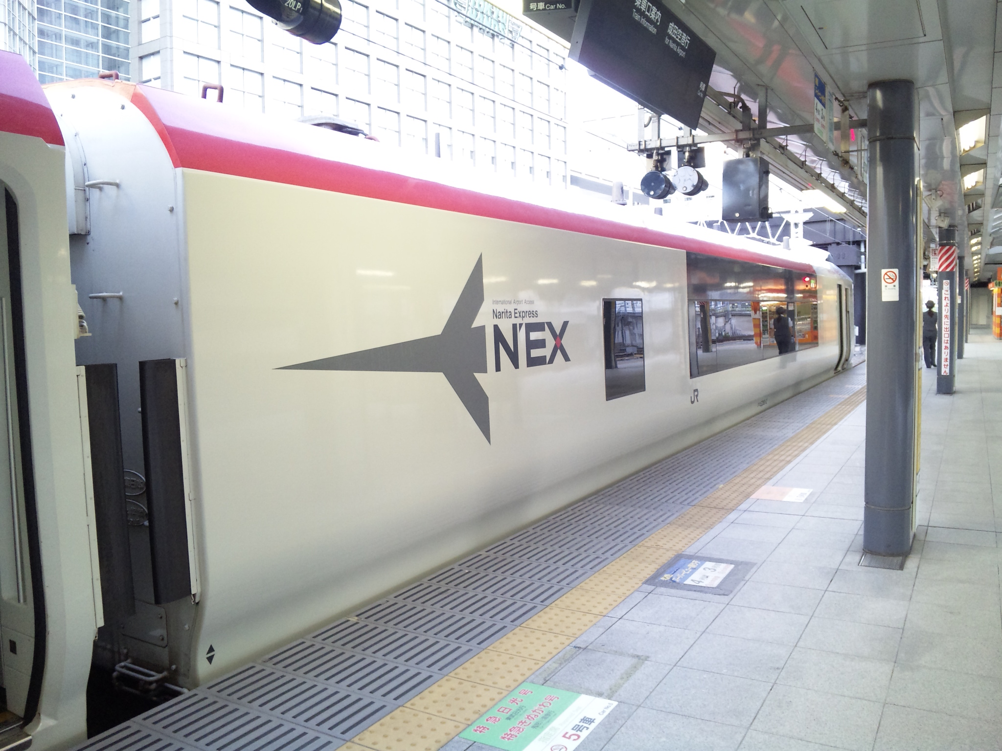 JR East-Narita Express-E259